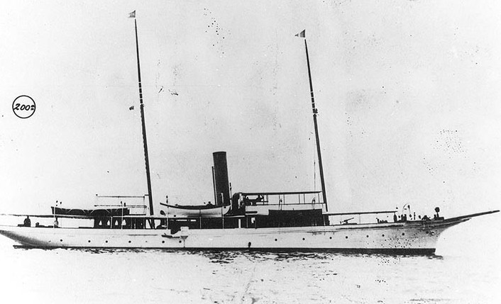 Photo #: NH 89408 Christabel (Anglo-American Steam Yacht, 1893) Photographed prior to World War I. This yacht served as USS Christabel (SP-162) in 1917-1919.